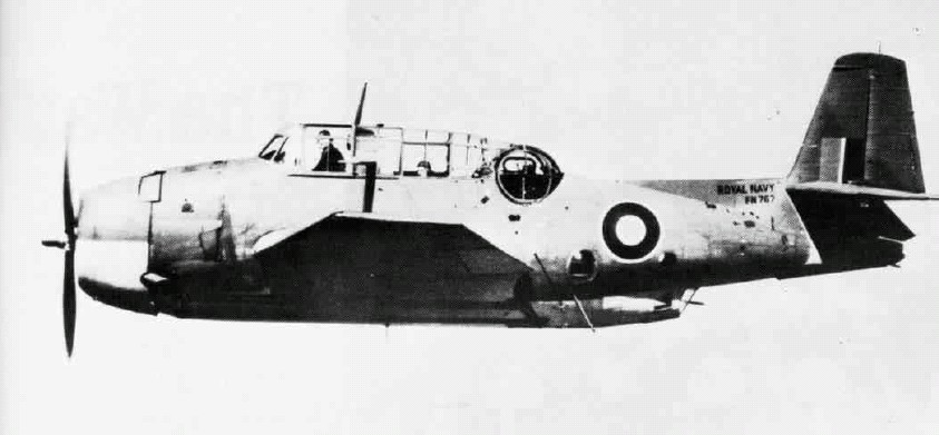 A Royal Navy Grumman Avenger torpedo bomber (UK serial FN767) during the Second World War.